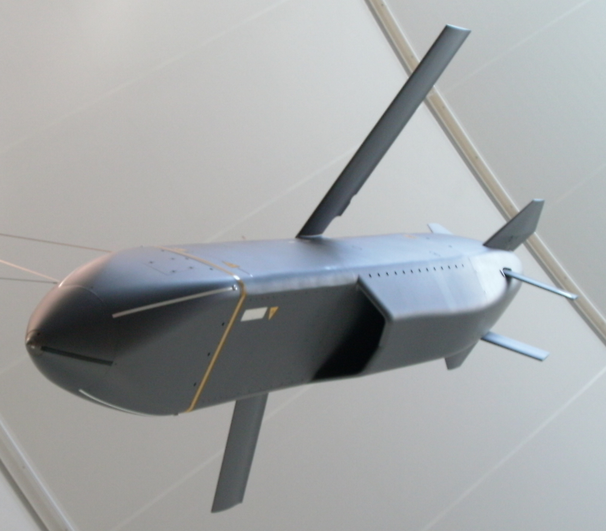 MBDA Storm Shadow air-to-surface missile. First used in the 2003 Iraq War. This photo was taken as part of Britain Loves Wikipedia in February 2010 by Adam Morgan.